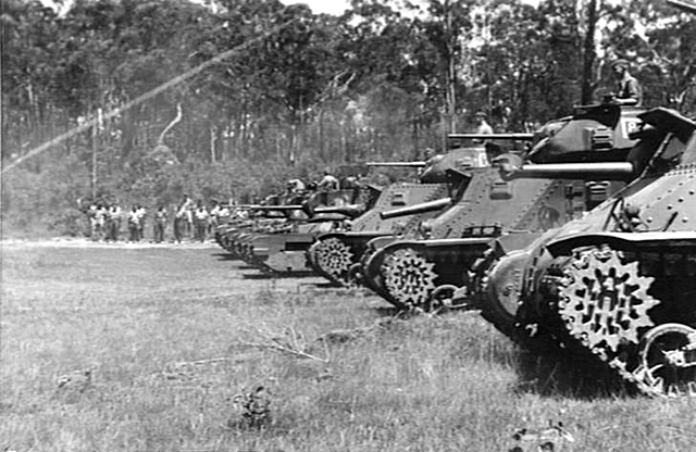 AWM caption : SOUTHPORT, QLD. 1944-01-18. MATILDA AND GENERAL GRANT TANKS OF THE 4TH ARMOURED BRIGADE FIRING SMALL CALIBRE WEAPONS DURING A DEMONSTRATION STAGED FOR A CONTINGENT OF NEW GUINEA POLICE BOYS WHO ARE TOURING AUSTRALIAN ARMY UNITS.